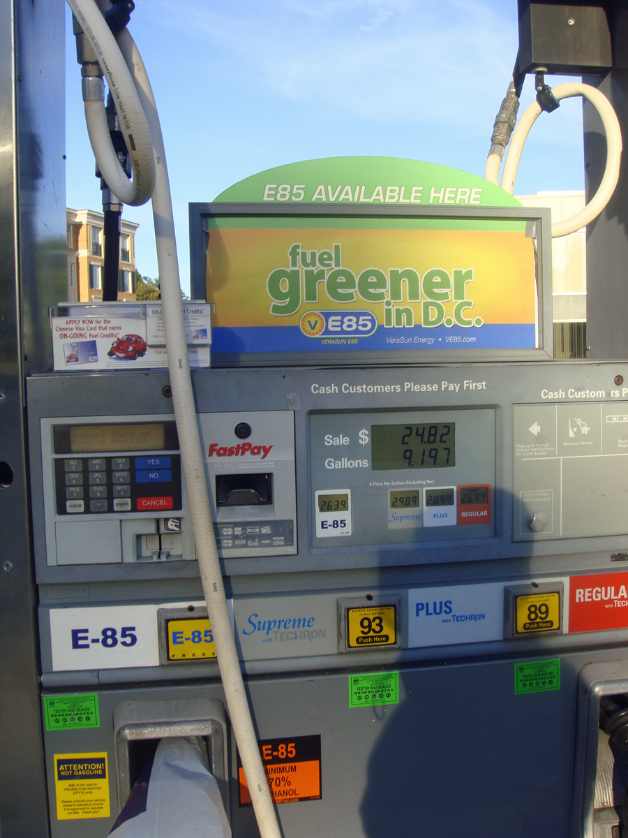 E85 fuel pump for sale at a regular gasoline station in Washington, D.C.